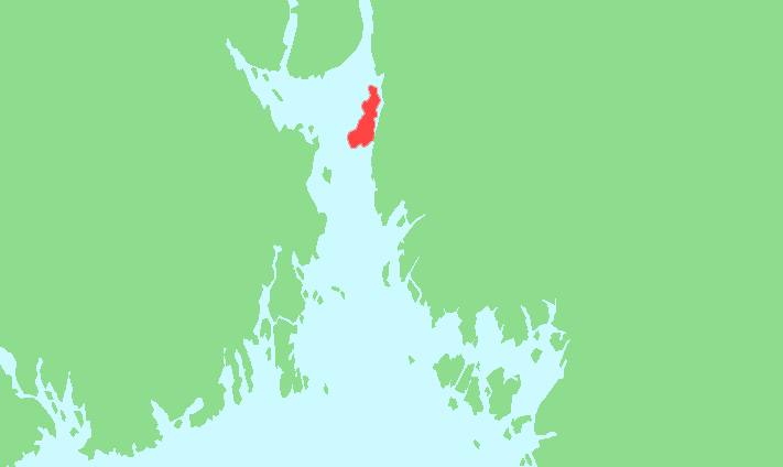 Locator map of Jeløya, Østfold, Norway